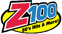 Former logo of the radio stations WKKB (under the WZRI callsign) and WEAN-FM (under the WZRA callsign).